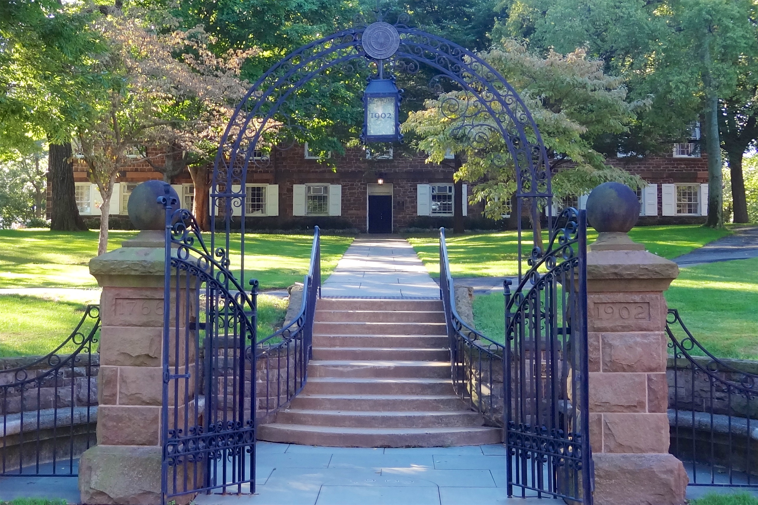 The Class of 1902 Memorial Gateway leading to the Queens Campus, Rutgers University in New Brunswick, New Jersey. Old Queens is in the background.